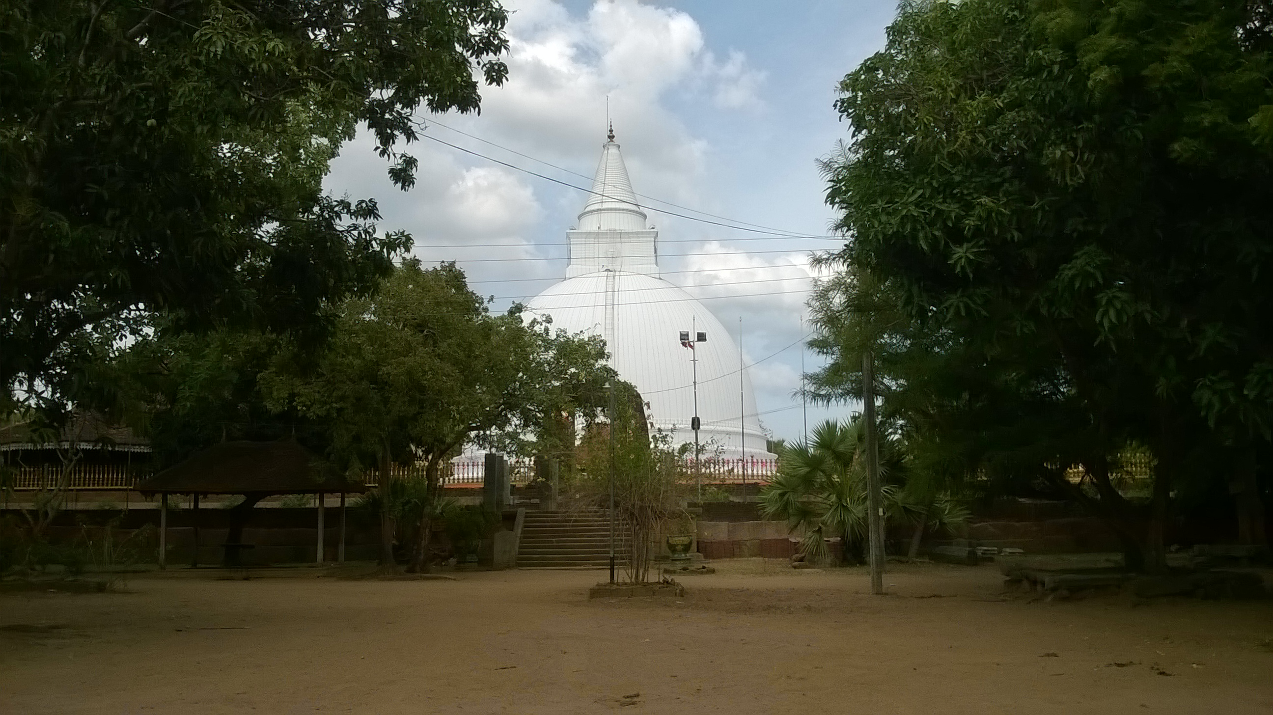 Pagoda at Seruvila Mangala Raja Maha Viharaya